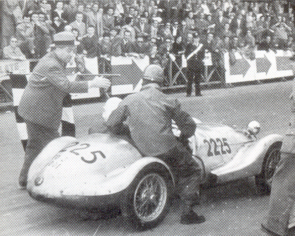 Entry #2225 at Mille Miglia in Italia on 25–26 Aprile 1953 was Massimo Bondi and Vitali in a Bandini. They ended in 9th place.[1]